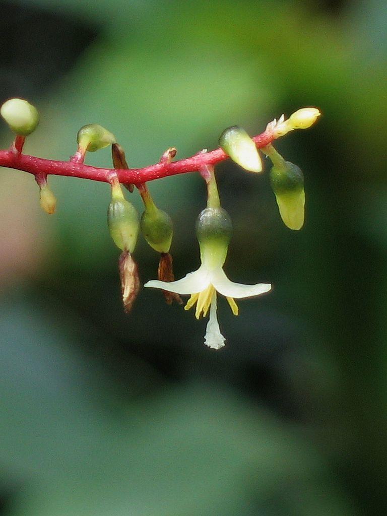 Araeococcus parviflorus, in cultivation at the Botanical Garden of Heidelberg, Germany.